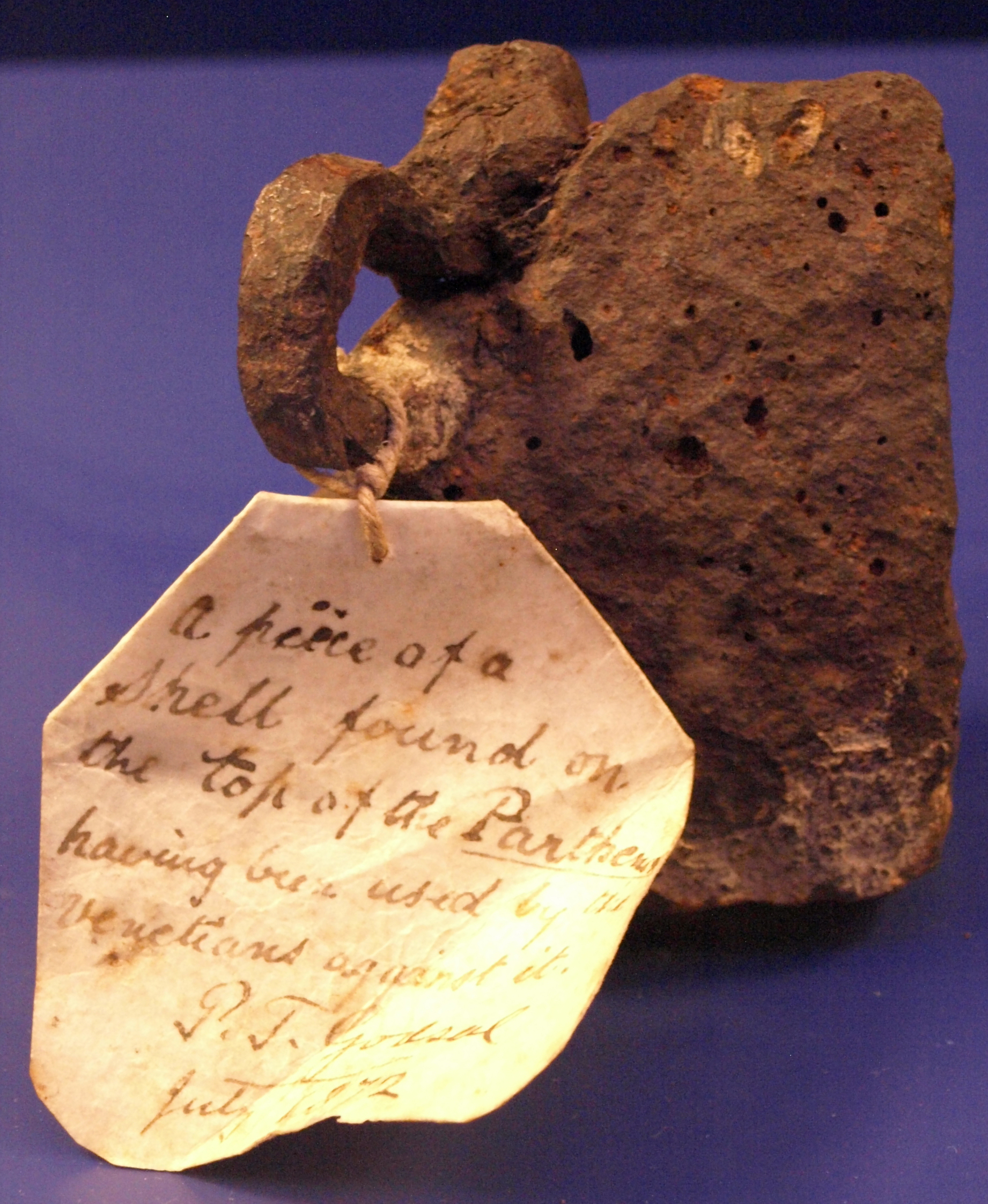 Fragment of a cast iron motor/bomb with lifting ring, found on the top of one of the walls of the Parthenon. Thought to have come from the Venetian siege on the Parthenon in 1687.